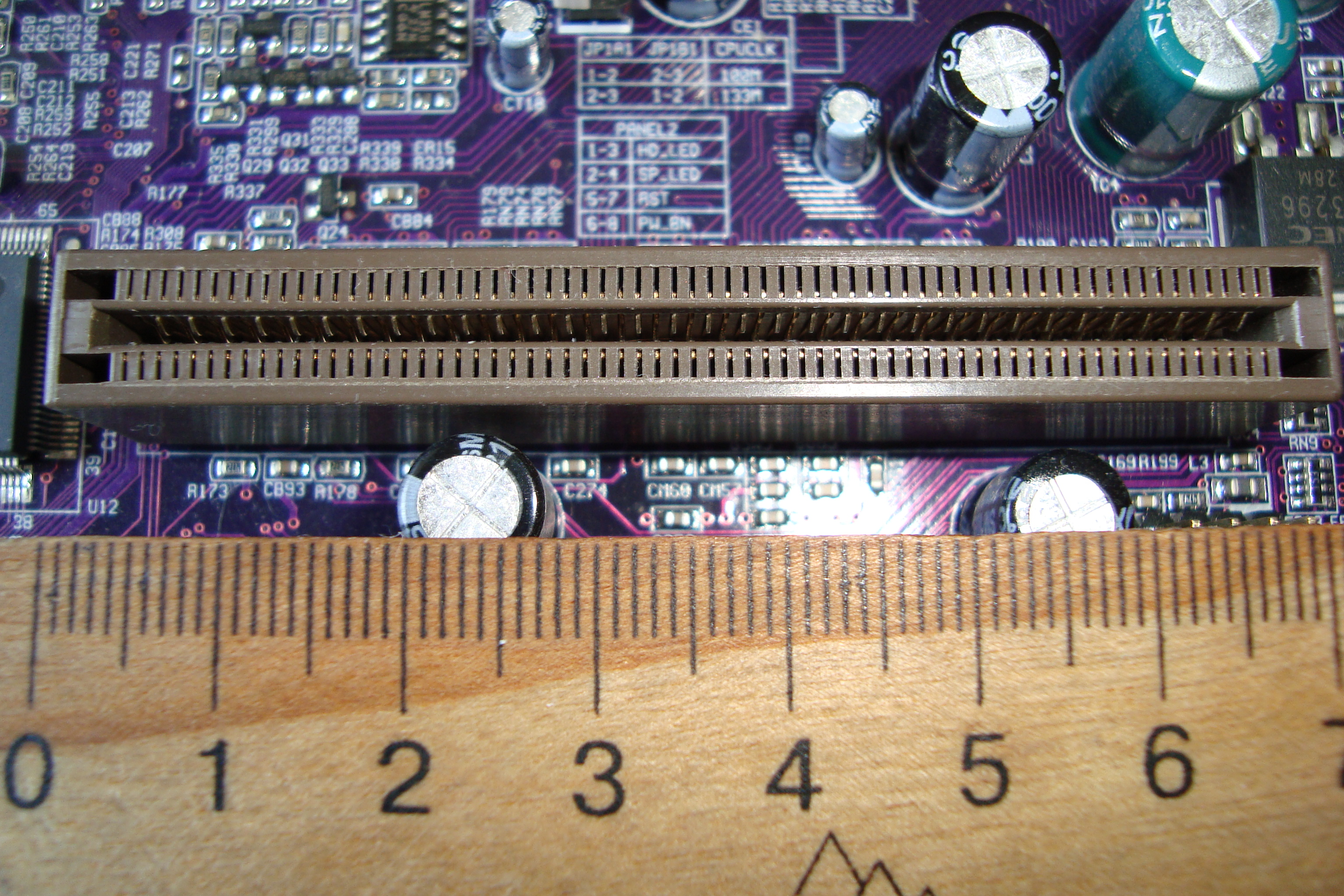 Accelerated Graphics Port at ECS P4VMM motherboard.